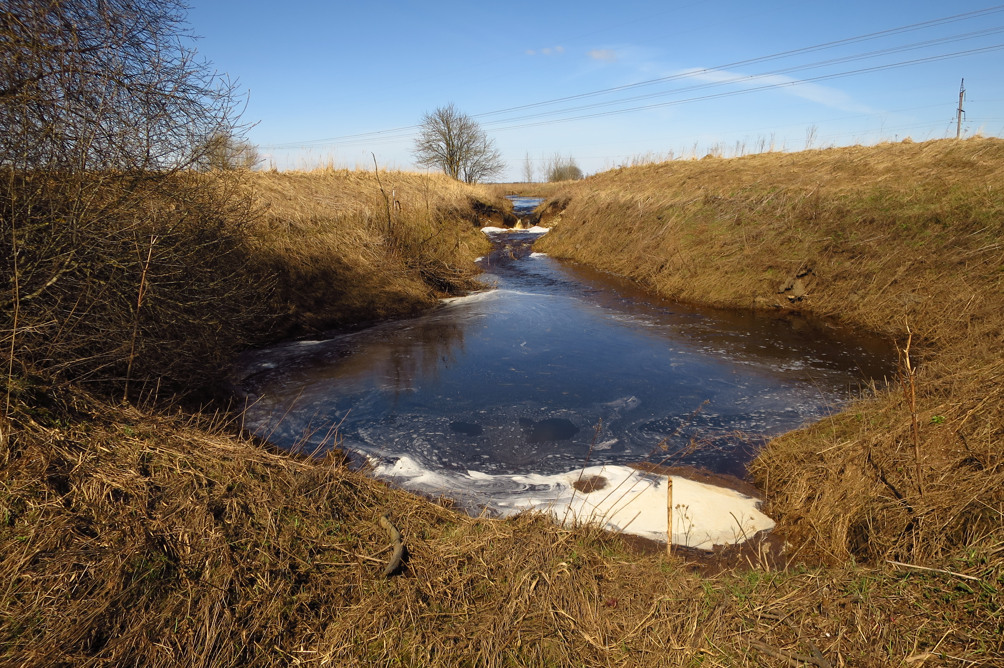 Pikkhaud Uhaku karstialal Uhaku maastikukaitsealal kevadel